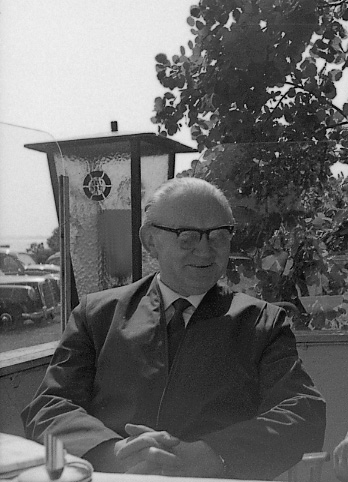 Kurt Fiebig, composer from Hamburg, Germany